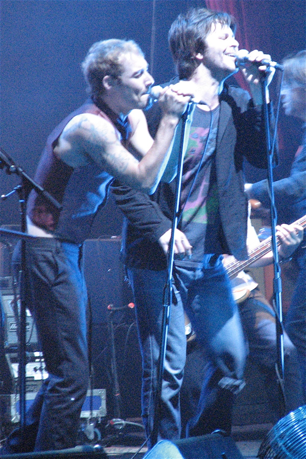 Daniel Johns of Silverchair and Bernard Fanning of Powderfinger sing at the Across the Great Divide Tour in 2007.